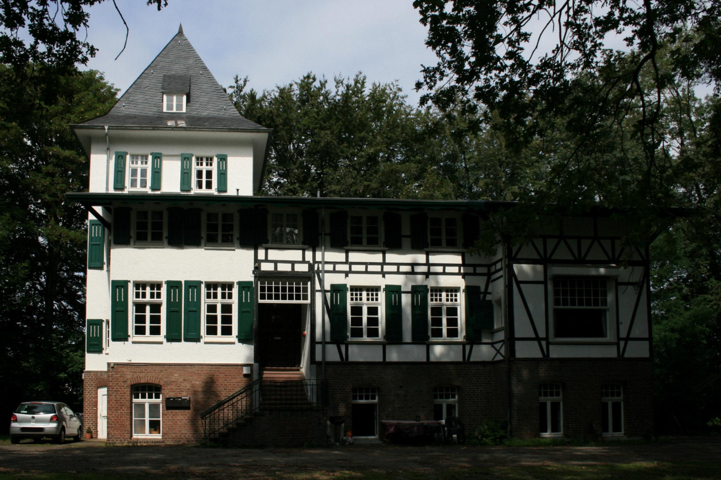 Cultural heritage monument No. A 042 in Mönchengladbach